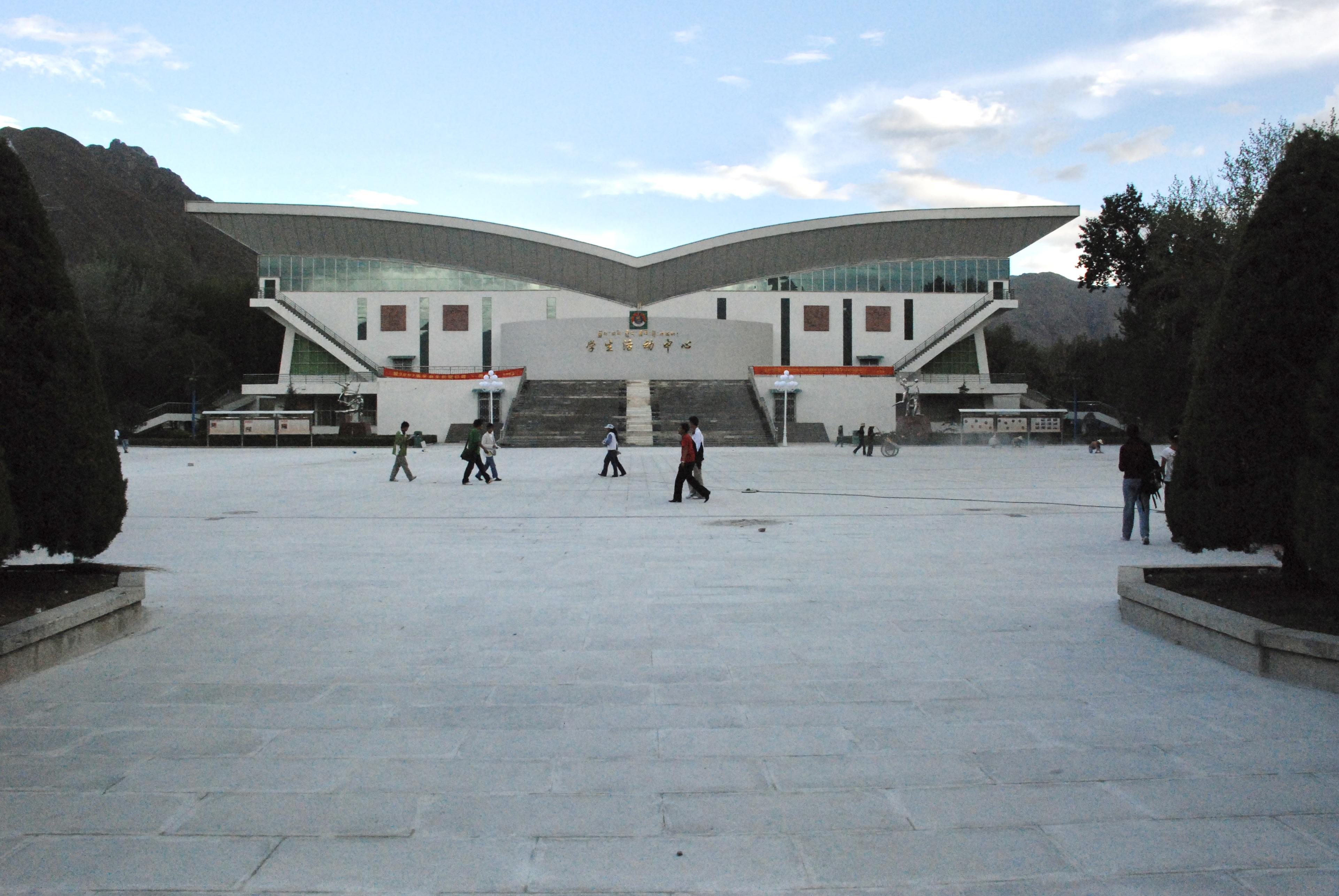 Tibet University — in Lhasa. Université du Tibet チベット大学